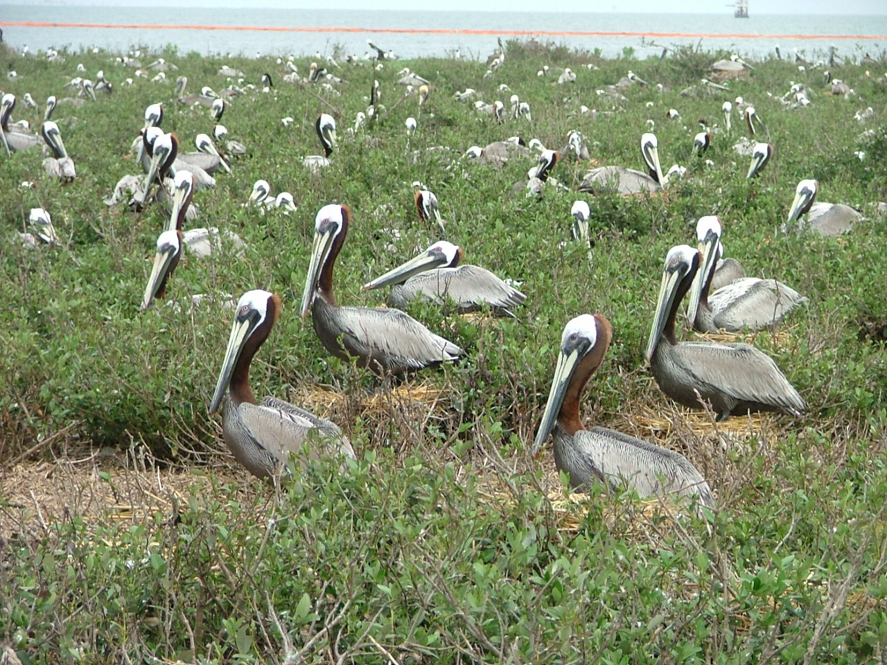 There are 1,300 brown pelican nests on Breton Island. Brown pelicans have recently been downlisted from endangered to threatened. Photo taken on May 3, 2010 as the oil spill approaches the Gulf Coast. Boom can be seen in the background.